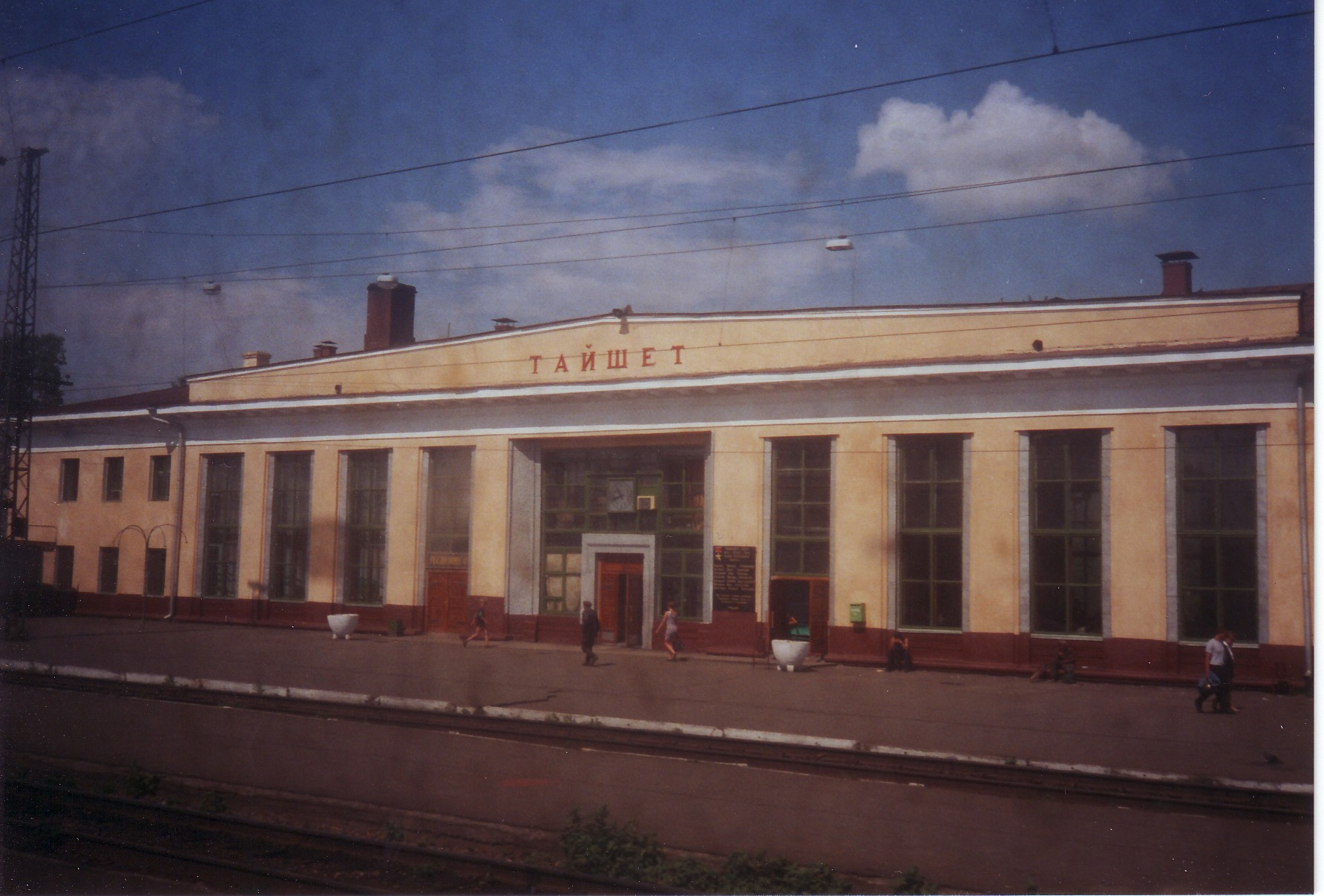 Tajshet at the Trans-Siberian railway.